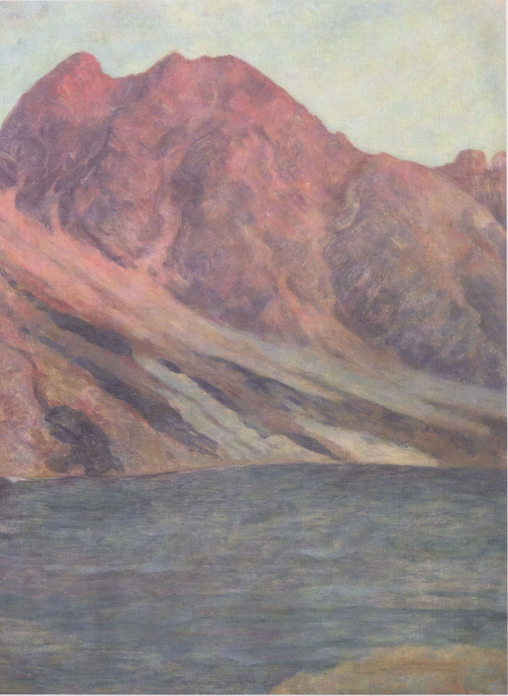 Stanisław Ignacy Witkiewicz, Czarny Staw i Granaty. Oil on canvas. 104 x 80 cm. Tatra Museum in Zakopane